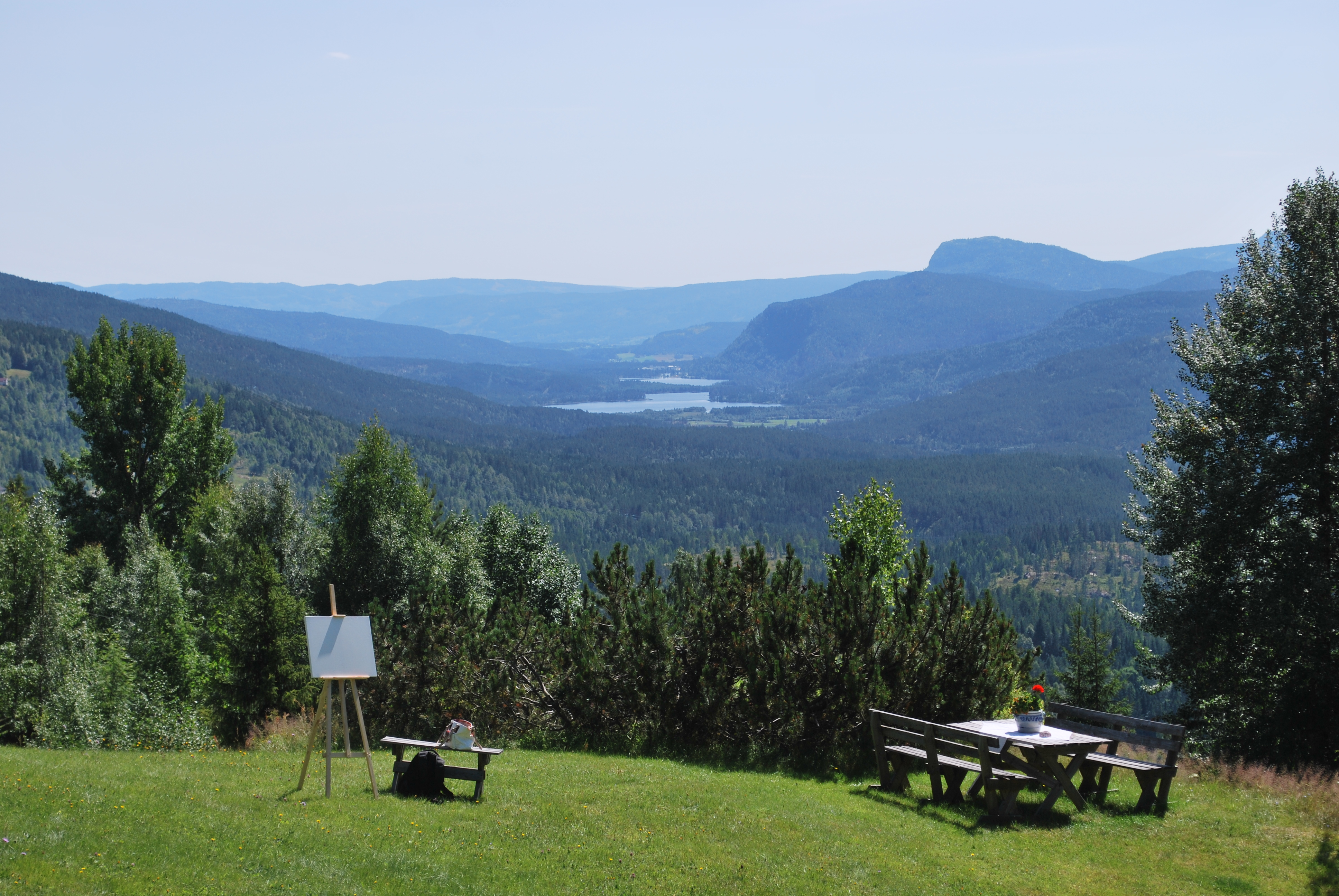 Hagan, home of Norwegianpainter Christian Skredsvig, with view over Eggedal and Sigdal